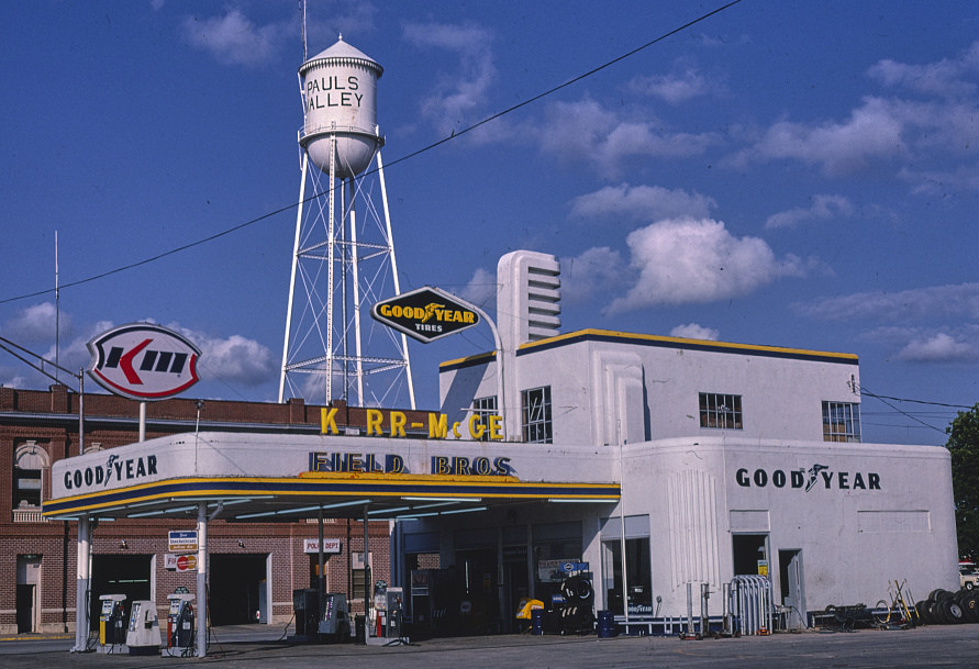 Margolies, John,, photographer. Field Brothers Service Station, horizontal view, 300 W. Paul, Pauls Valley, Oklahoma 1982. 1 photograph : color transparency ; 35 mm (slide format). Notes: Title, date and keywords based on information provided by the photographer. Margolies categories: Tile and Deco stations; Gas stations. Please use digital image: original slide is kept in cold storage for preservation. Credit line: John Margolies Roadside America photograph archive (1972-2008), Library of Congress, Prints and Photographs Division. Purchase; John Margolies 2007 (DLC/PP-2007:125). Forms part of: John Margolies Roadside America photograph archive (1972-2008). Subjects: Automobile service stations--1980-1990. United States--Oklahoma--Pauls Valley. Format: Slides--1980-1990.--Color For more information, see "John Margolies Roadside America Photograph Archive - Rights and Restrictions Information" Repository: Library of Congress, Prints and Photographs Division, Washington, D.C. 20540 USA, Part Of: Margolies, John John Margolies Roadside America photograph archive (DLC) 2010650110 General information about the John Margolies Roadside America photograph archive is available at Higher resolution image is available (Persistent URL): Call Number: LC-MA05- 16